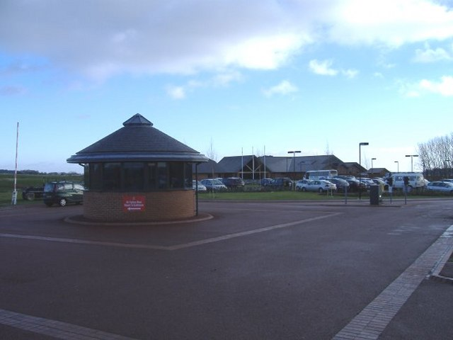 The 'Academy of Light', near Cleadon. The newly built training facility for Sunderland AFC Junior players.